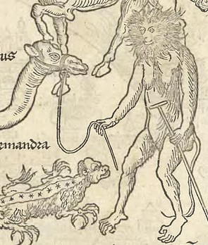 Ape from the Holy Land